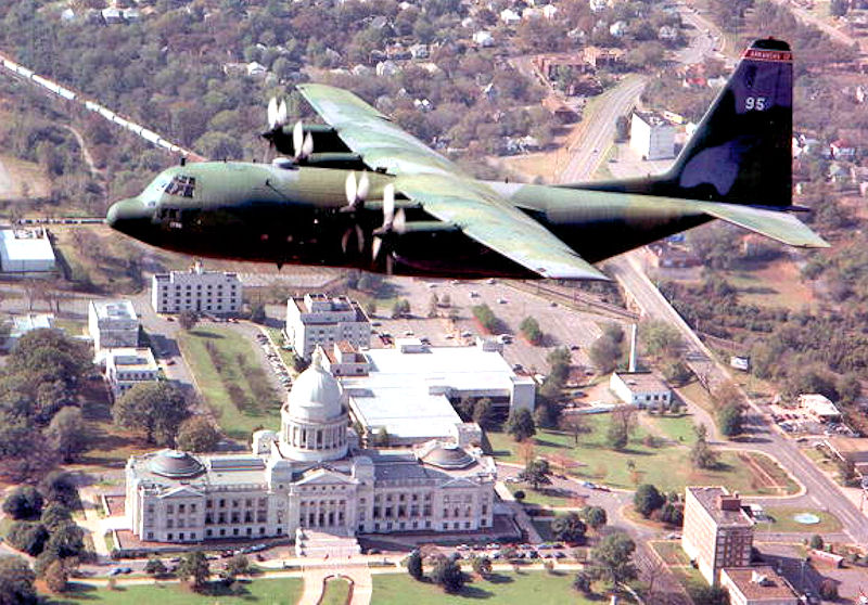 A 189th Airlift Wing C-130 cargo plane flies over the state capitol in Little Rock, Arkansas in this undated Air Force photo. (Photo by US Air Force/Getty Images)